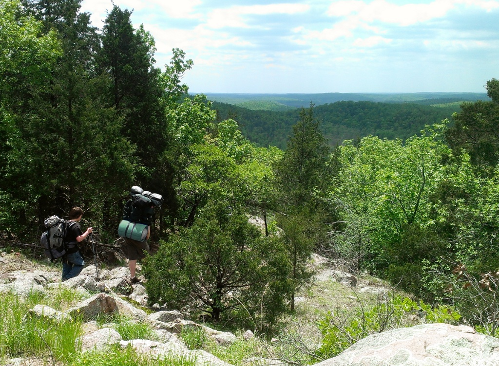 Backpackers on the Taum Sauk section of the Ozark Trail crossing Goggins Mountain.